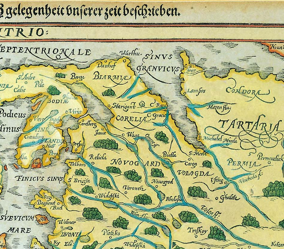 Map of Northern Russia, by Gerard Mercator, Amsterdam, 1595. Taken from "Atlas sive cosmographica, Svecia et Norvegia cum confinijs".